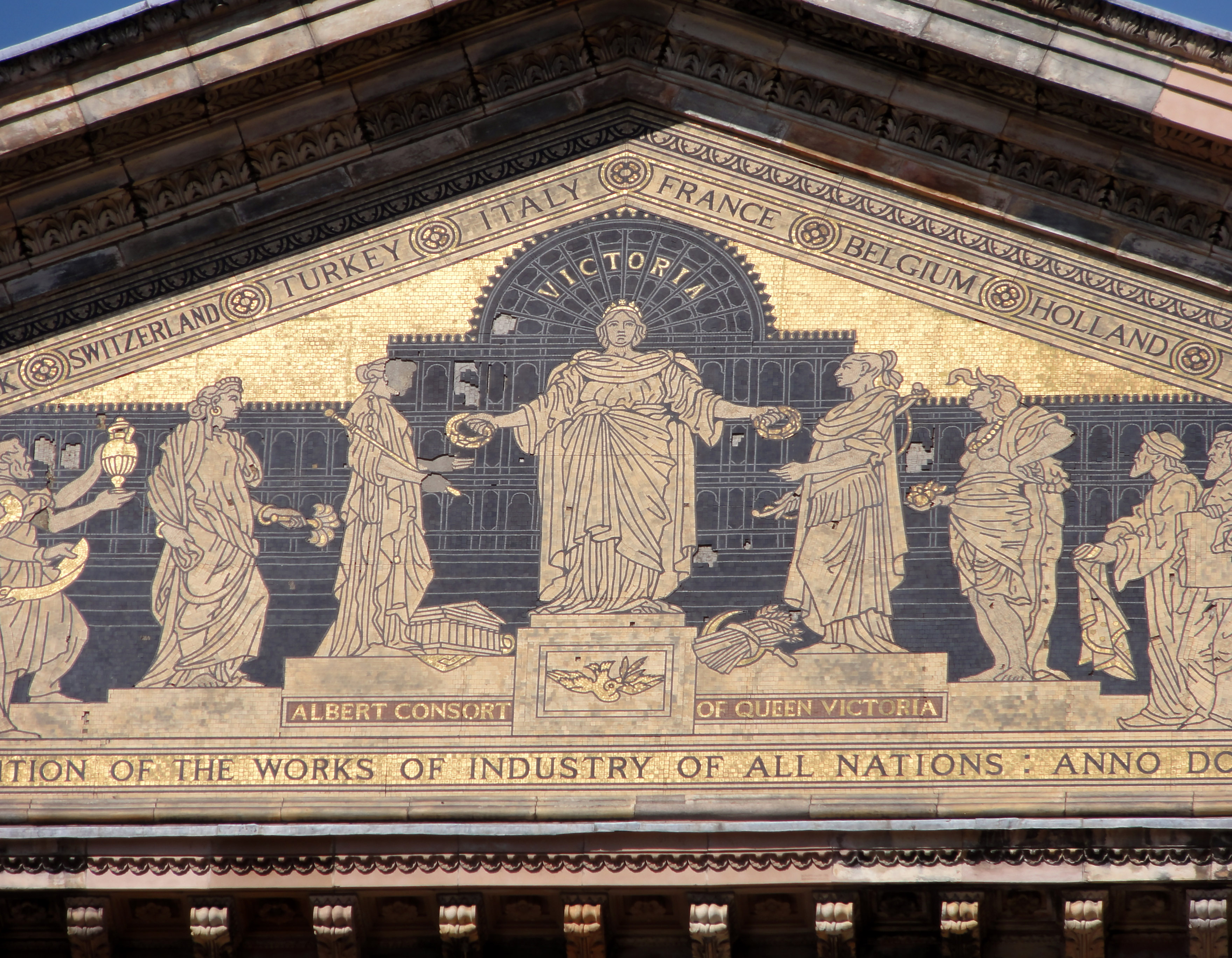 V&A frieze detail taken in internal courtyard. The frieze commemorates the 1851 Great Exhibition and Queen Victoria is shown in front of the Crystal Palace (Hyde Park) surrounded by figures representing the countries taking part as well as the Prince Consort.